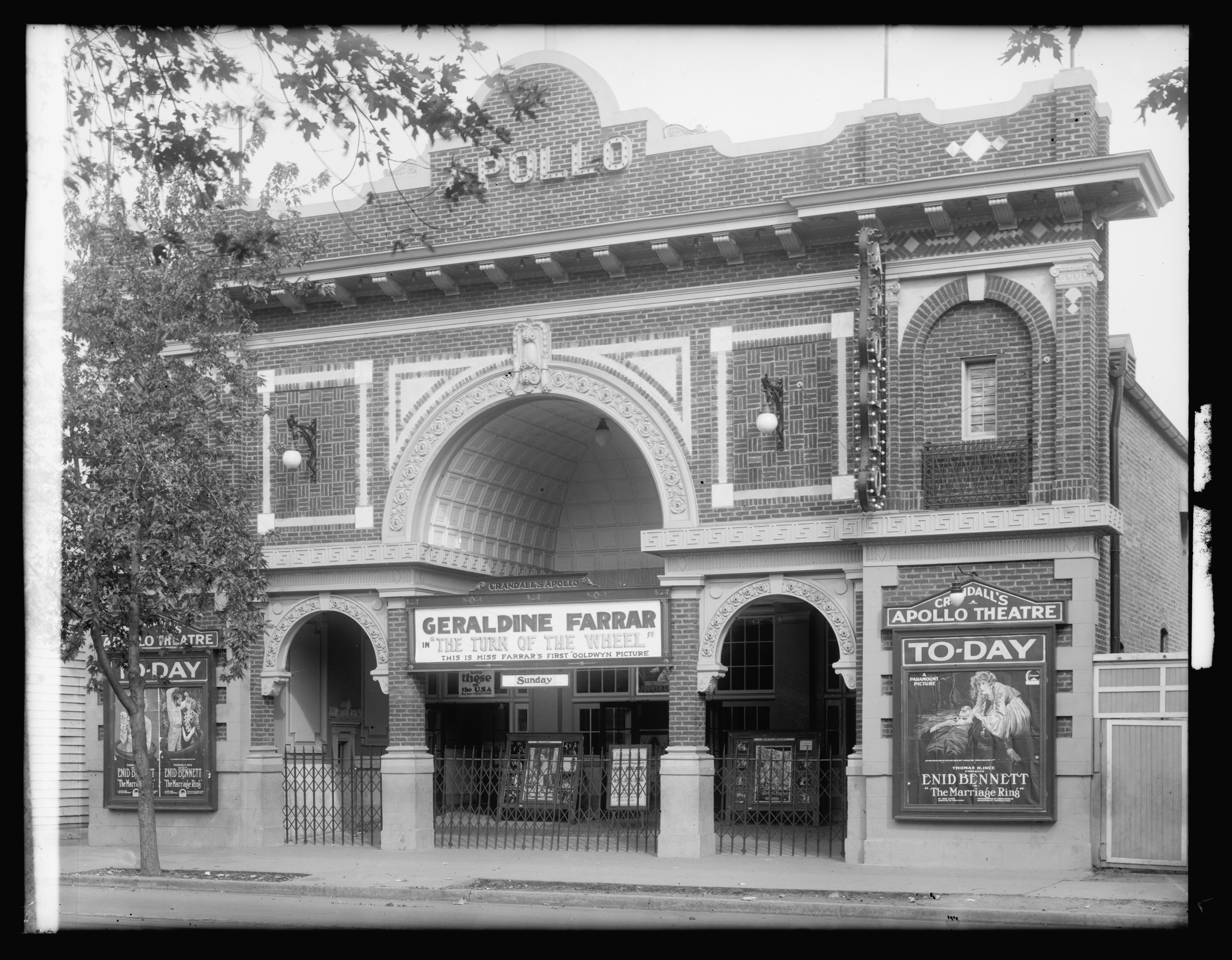 Title: Crandall's Apollo Abstract/medium: 1 negative : glass ; 8 x 6 in.